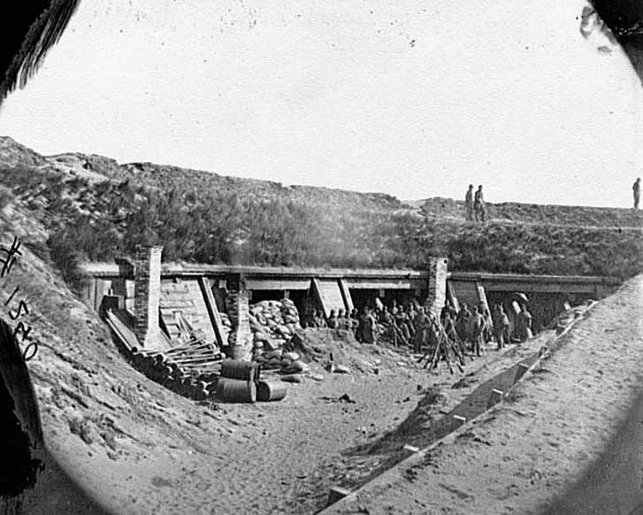 inside Fort Fisher (North Carolina)